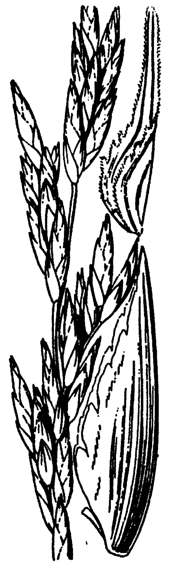 Texas Salt. Family Poaceae. Drawing.